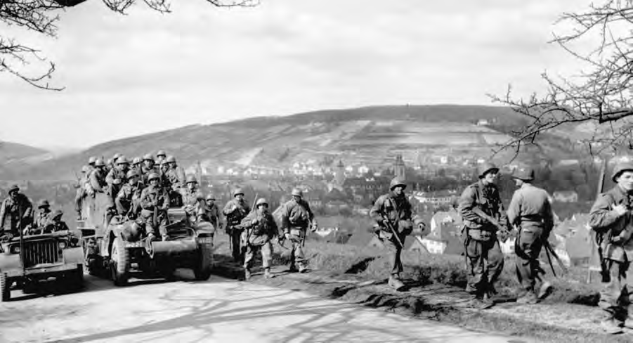 US Seventh Army troops advancing after capturing the town of Mergentheim